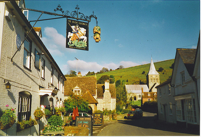 Ye Olde George, East Meon. An old village inn with church and Park Hill in the distance.